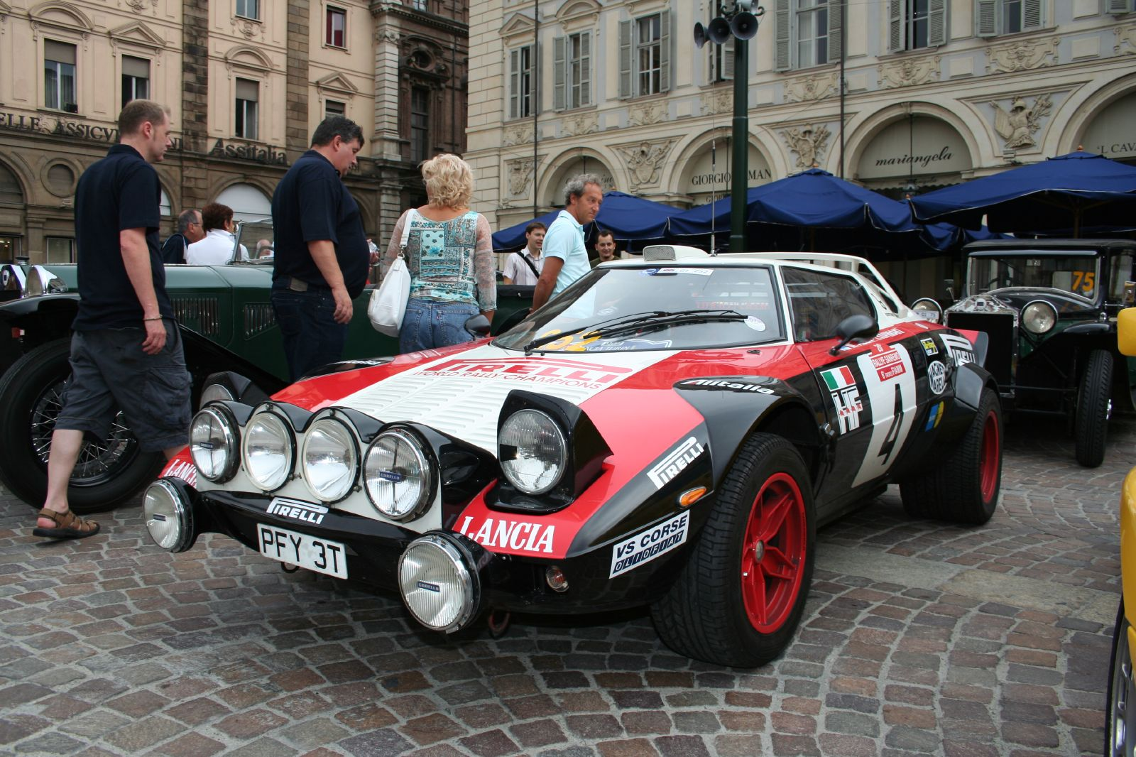 British Hawk replica of 1978 Lancia Stratos HF Pirelli at the Lancia centenary celebrations in Piazza San Carlo, Turin (Italy), 9 September 2006.